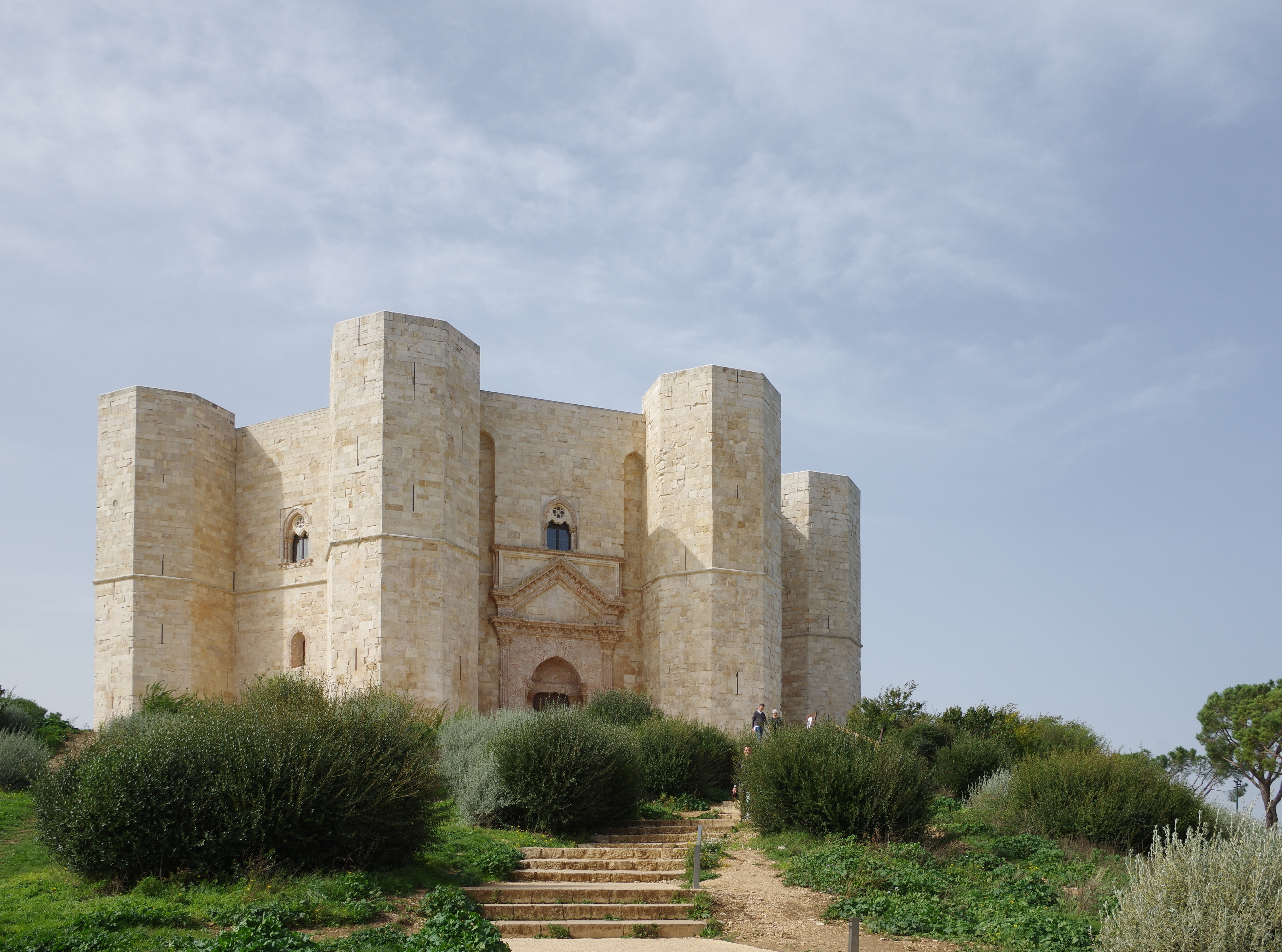 Italy, Castel del Monte